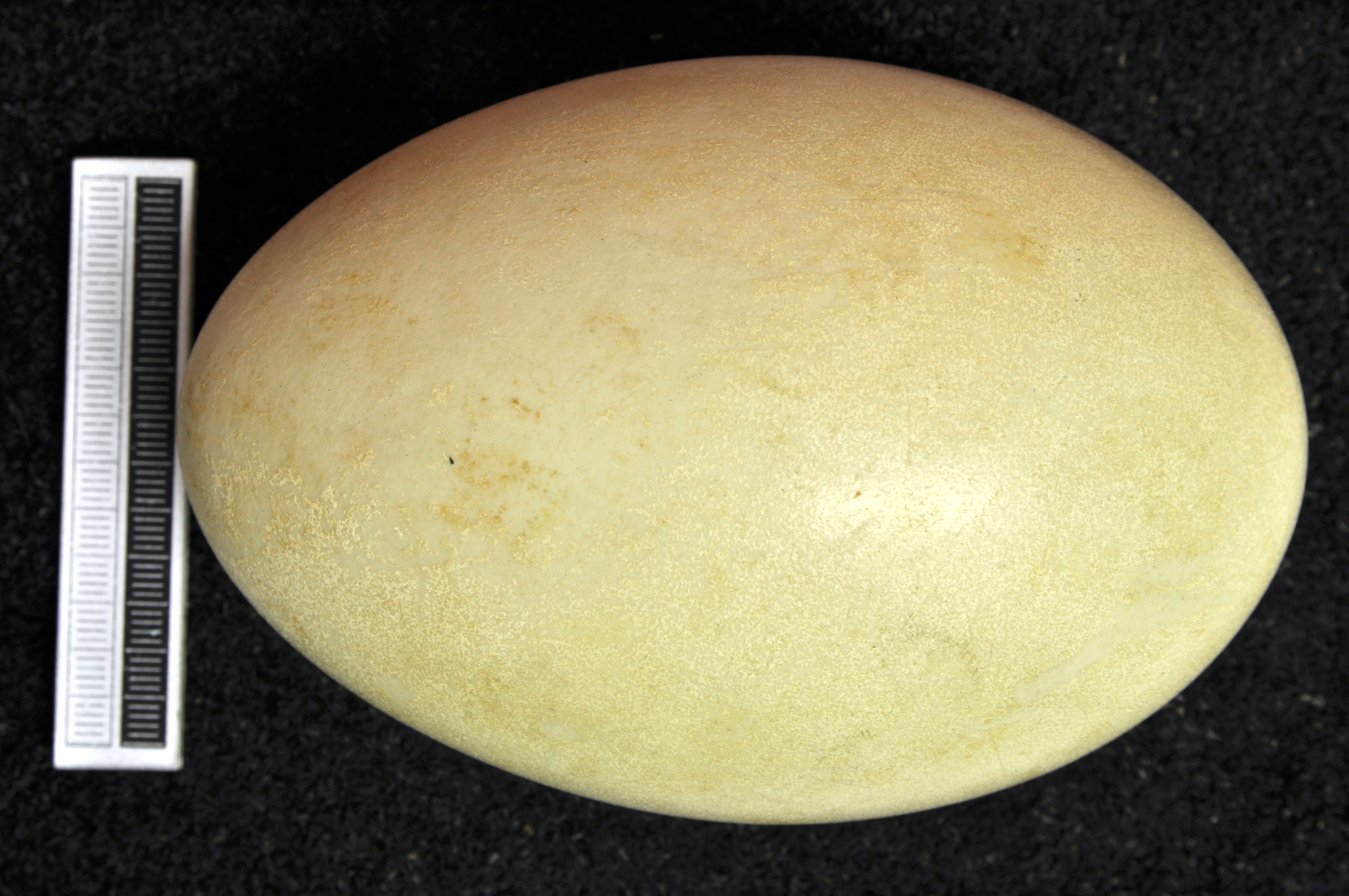 Mute swan Cygnus olor , egg, Coll. Museum Wiesbaden